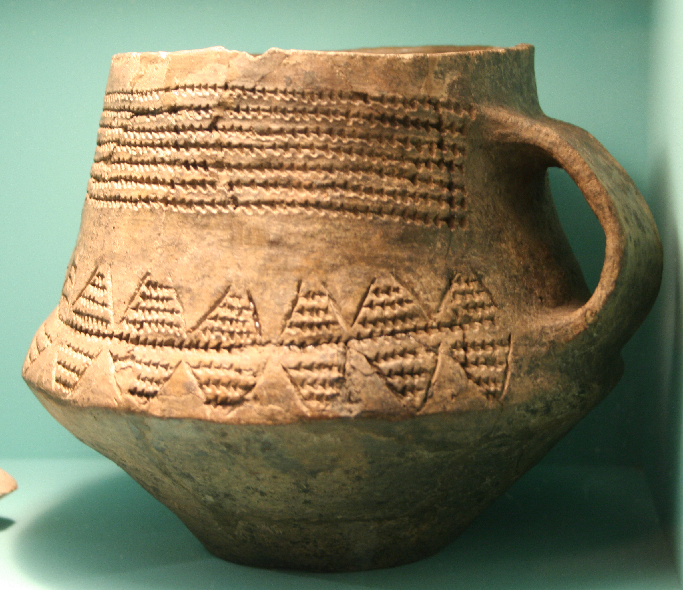 Museum für Vor- und Frühgeschichte (Museum of prehistory and early history), Berlin